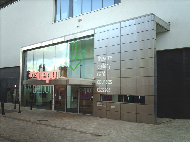 Entrance to the Arts Depot. The Arts depot in North Finchley was built on the site of the old Bus Station and Gaumont Cinema. The cinema originally opened in 1937 - information supplied by Tony Laurence who was present at the opening. As well as the amenities advertised, there is a new enclosed bus station, shopping area (unoccupied - at this time) and flats.